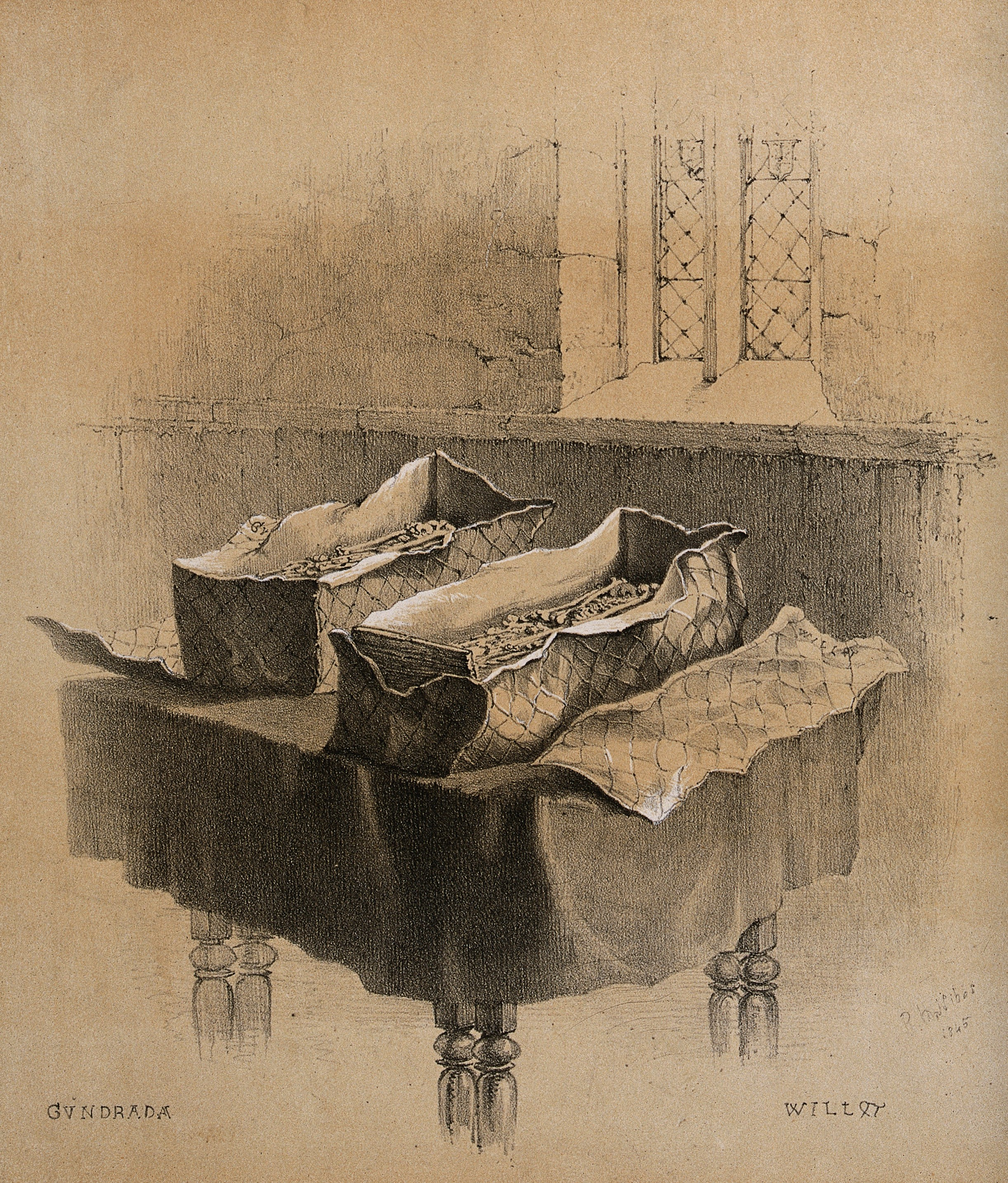 Two leaden cists containing the remains of Gundrada, the daughter of William the Conqueror and her husband William de Warren. Chalk lithograph by F.W. Woledge after a drawing by R.H. Nibbs, 1845. Iconographic Collections Keywords: Frederick William Woledge; Richard Henry Nibbs